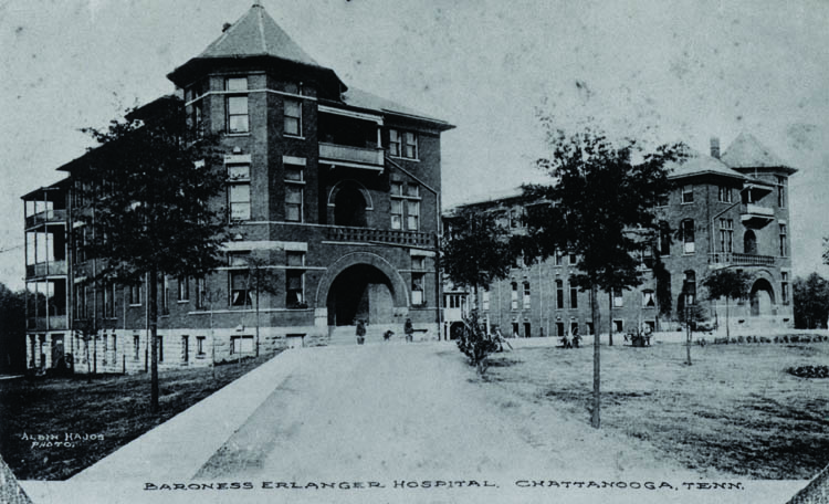 Photo of Erlanger Hospital taken in the late 1800s